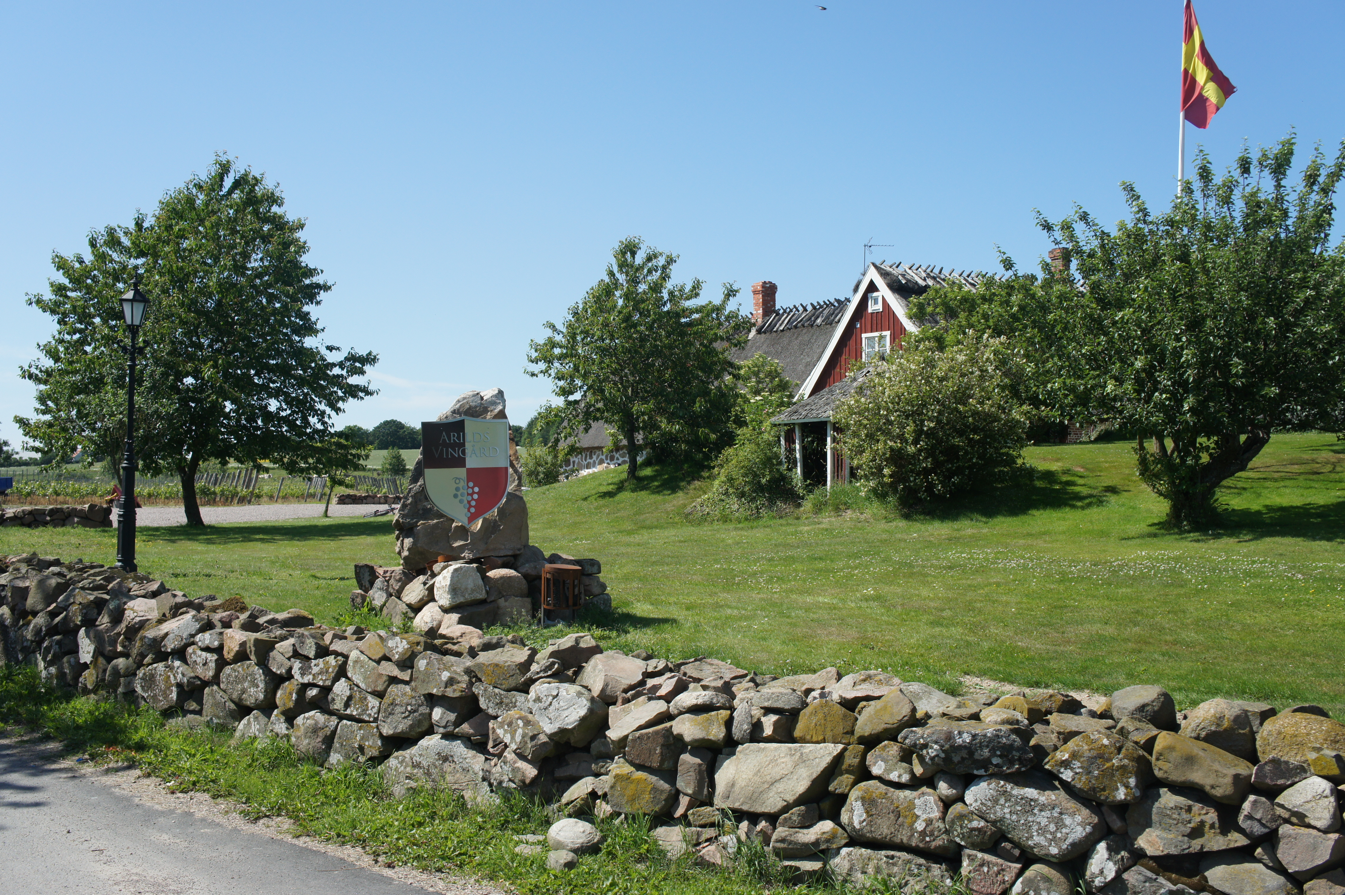 The vineyard of Arild, Sweden